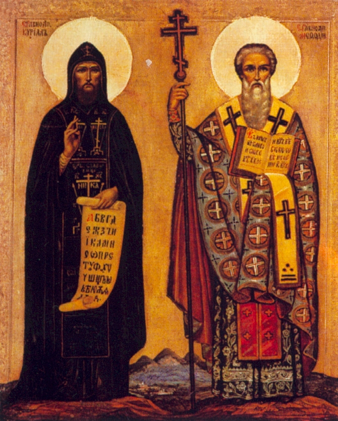 Cyril and Methodius depicted on a Russian icon from 18./19. century